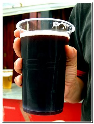 Calimocho in a "mini" glass